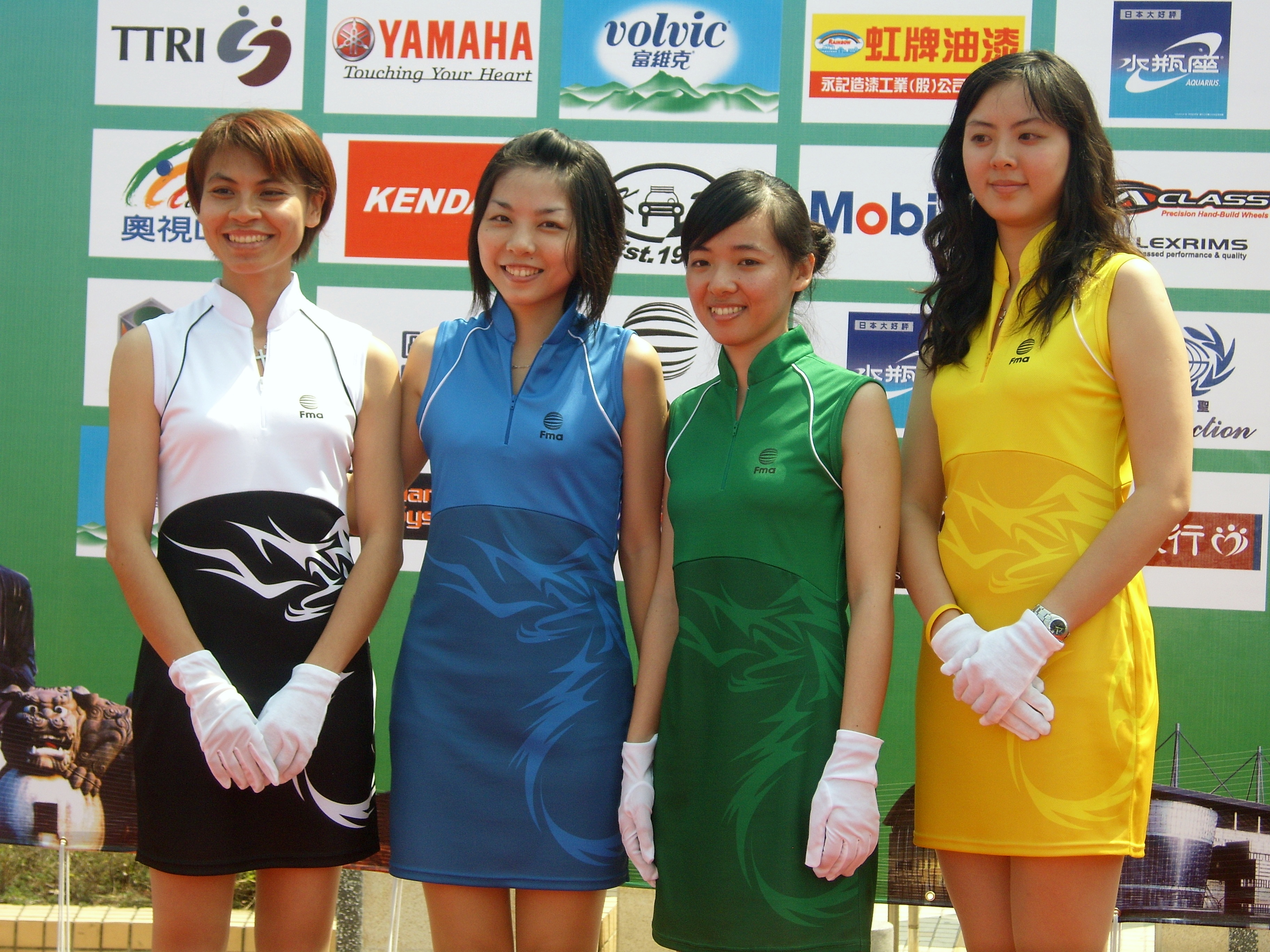 2008 Tour de Taiwan Stage 1: Miss Etiquette with 4 different leading jersey colors.